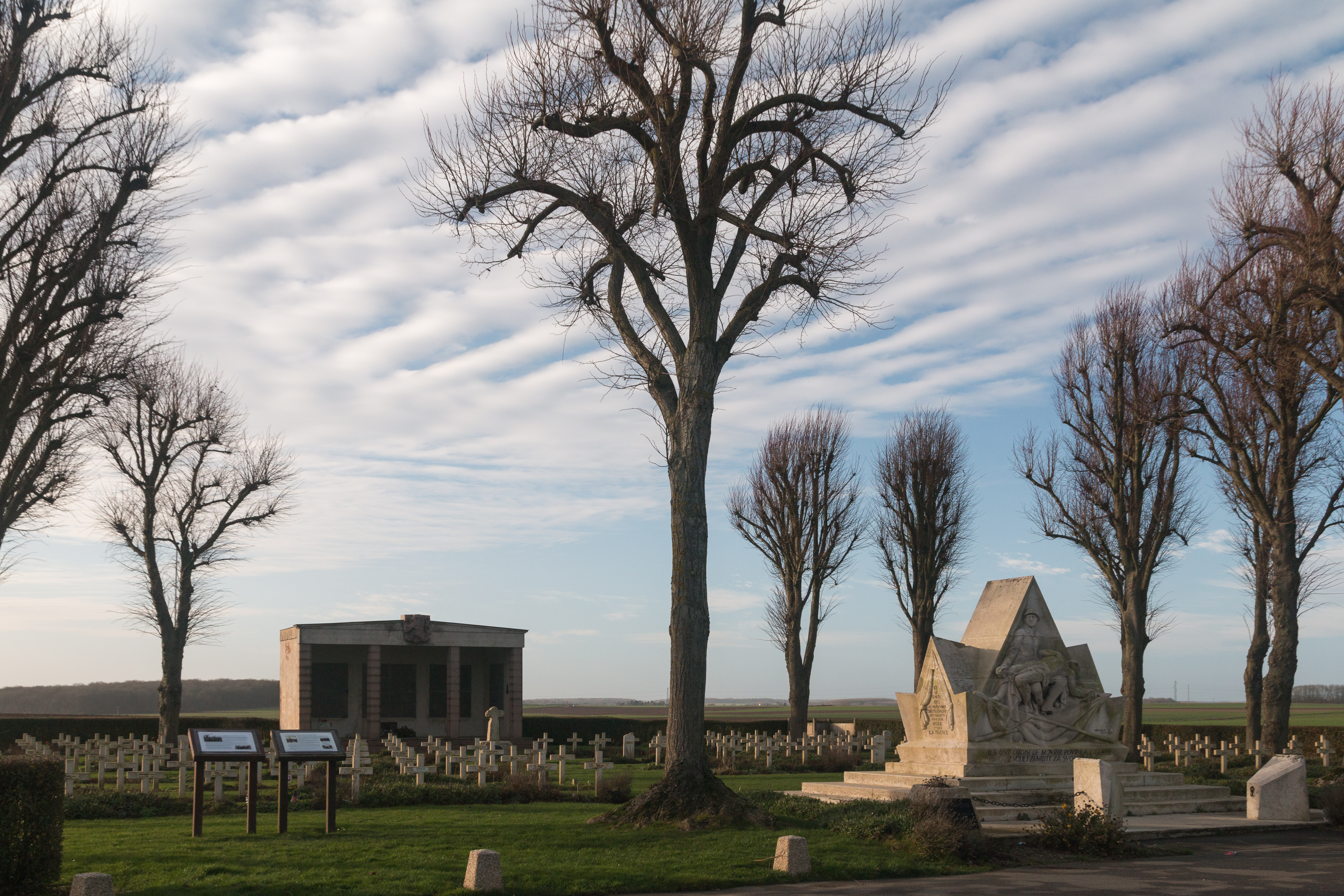 La Targette Czechoslovakian cemetery.